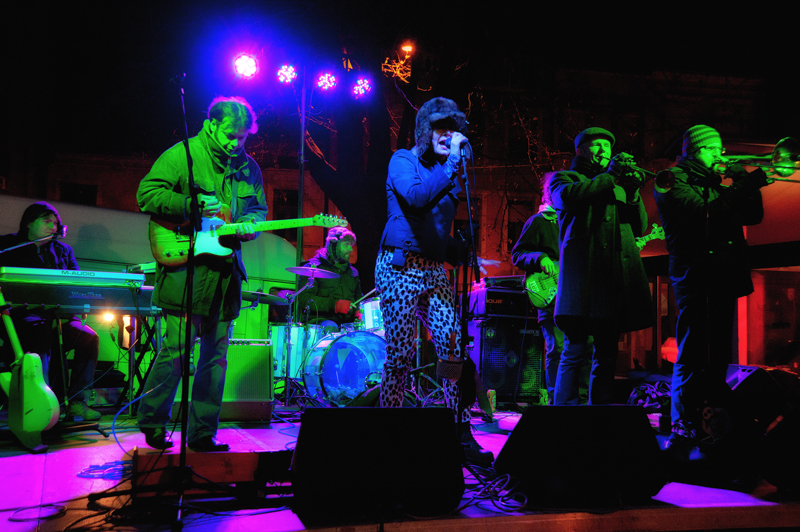 Koncert Jinxa